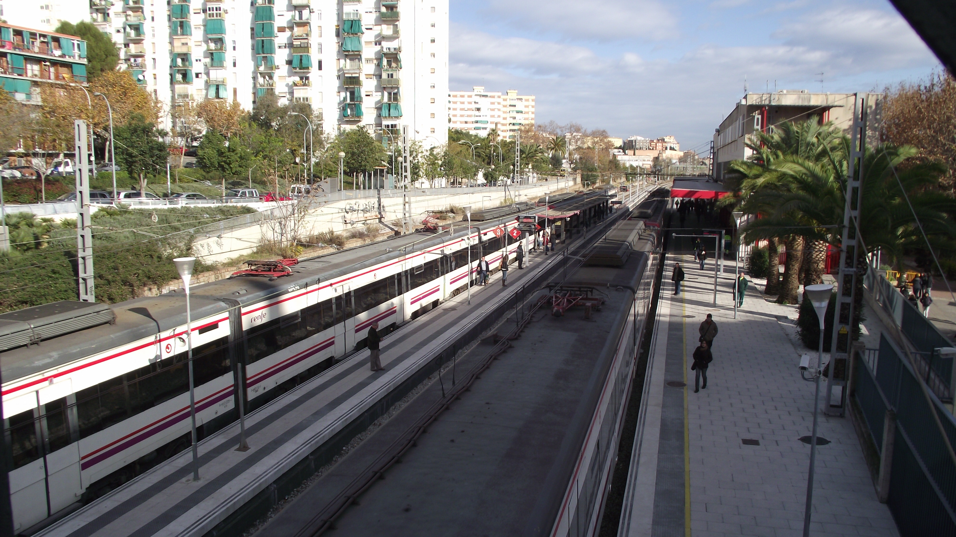 L'Hospitalet de Llobregat station looking from the footbridge looking to the South